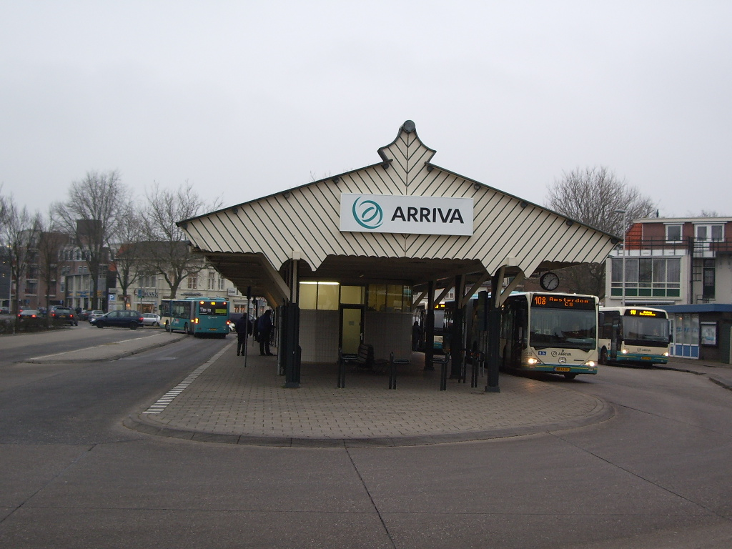 The bus station at the Tramplein (square) in the town of Purmerend, in North Holland